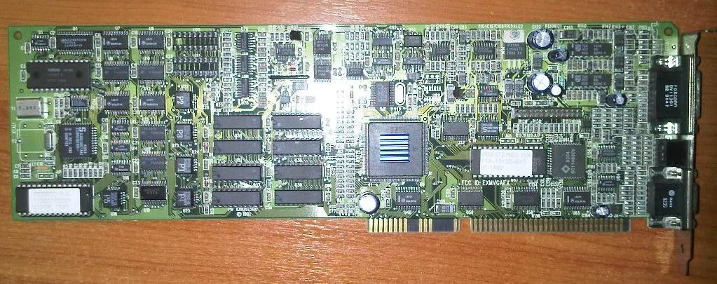 ATi VGA Stereo FX